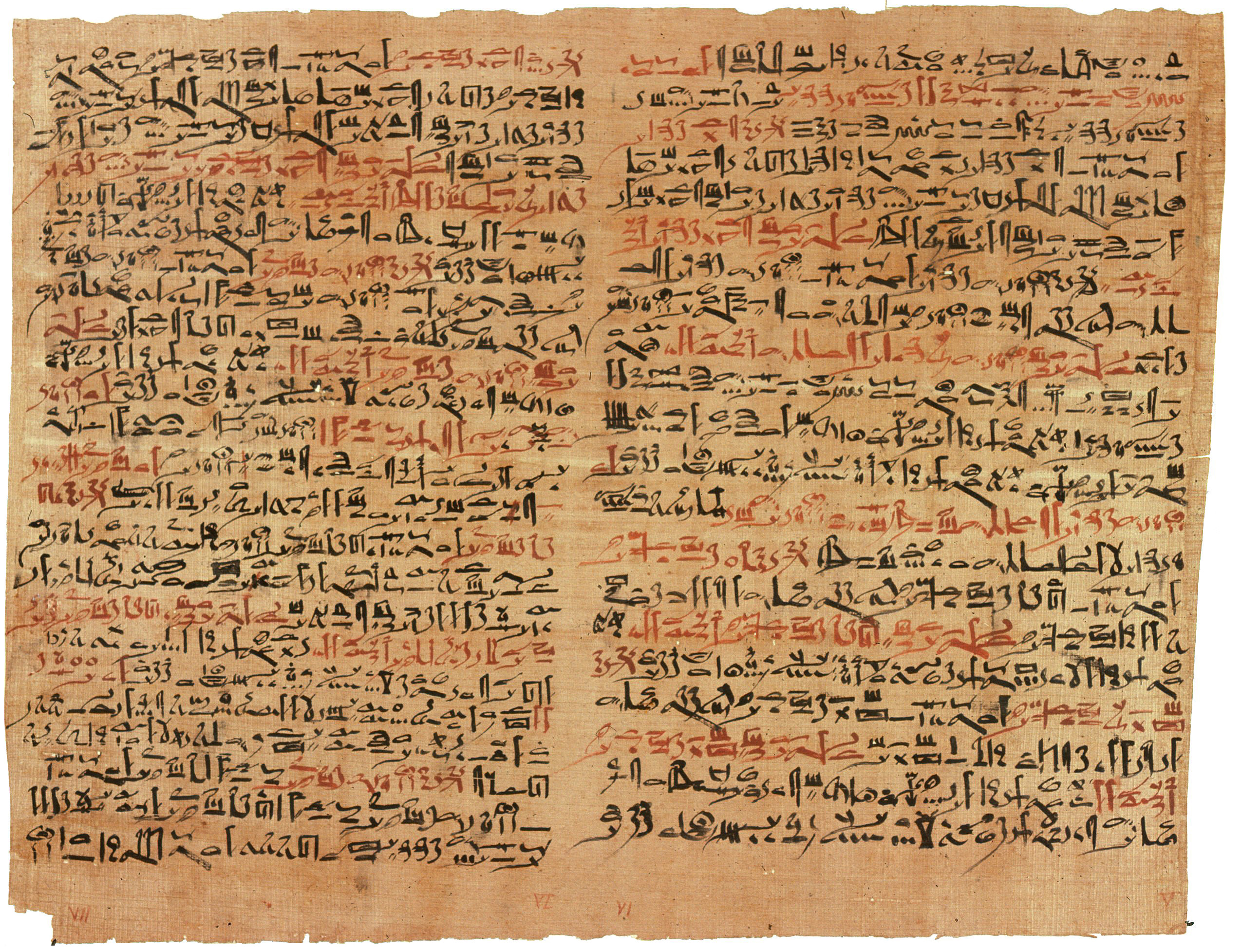 The Edwin Smith papyrus, the world's oldest surviving surgical document. Written in hieratic script in ancient Egypt around 1600 B.C., the text describes anatomical observations and the examination, diagnosis, treatment, and prognosis of 48 types of medical problems in exquisite detail. Among the treatments described are closing wounds with sutures, preventing and curing infection with honey and moldy bread, stopping bleeding with raw meat, and immobilization of head and spinal cord injuries. Translated in 1930, the document reveals the sophistication and practicality of ancient Egyptian medicine. Recto Column 6 (right) and 7 (left) of the papyrus, pictured here, discuss facial trauma. (Cases 12-20)